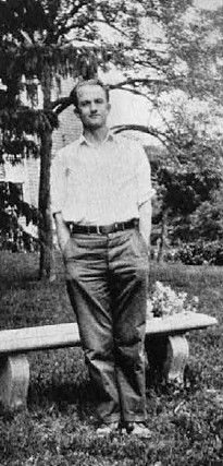 Louis Adamič